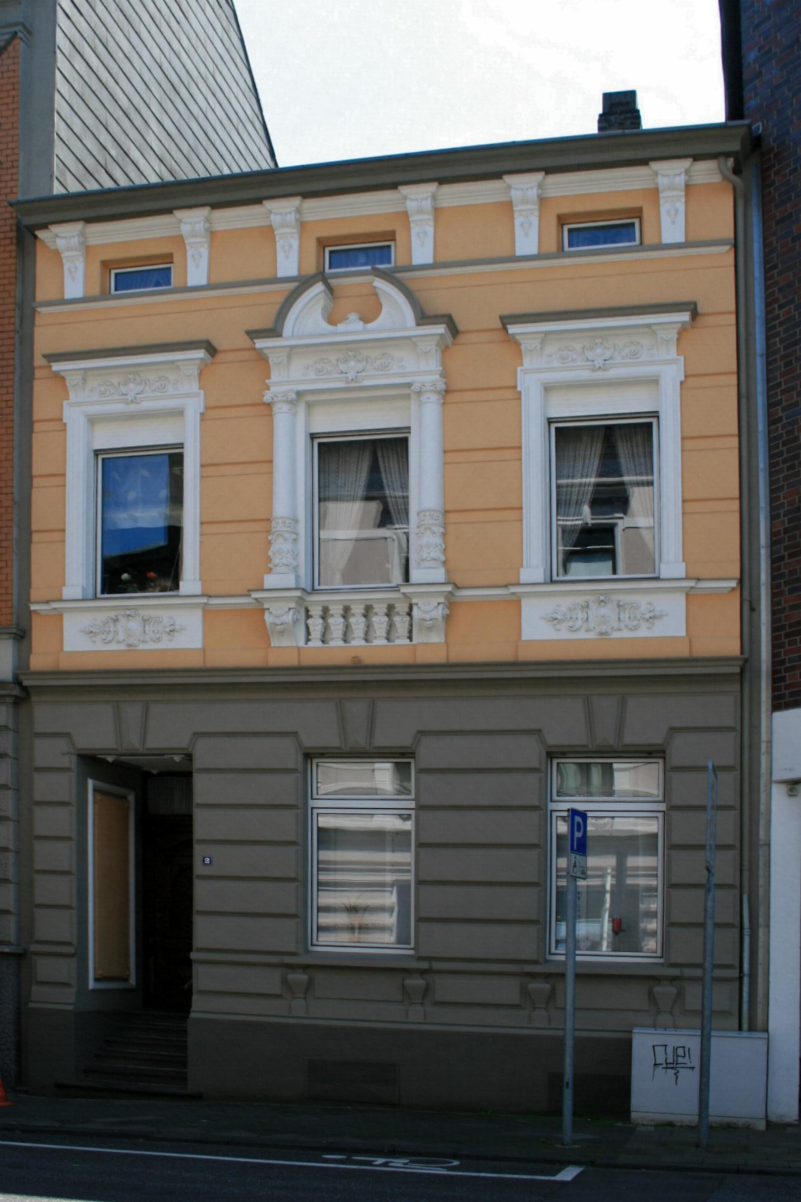 Cultural heritage monument No. F 025 in Mönchengladbach